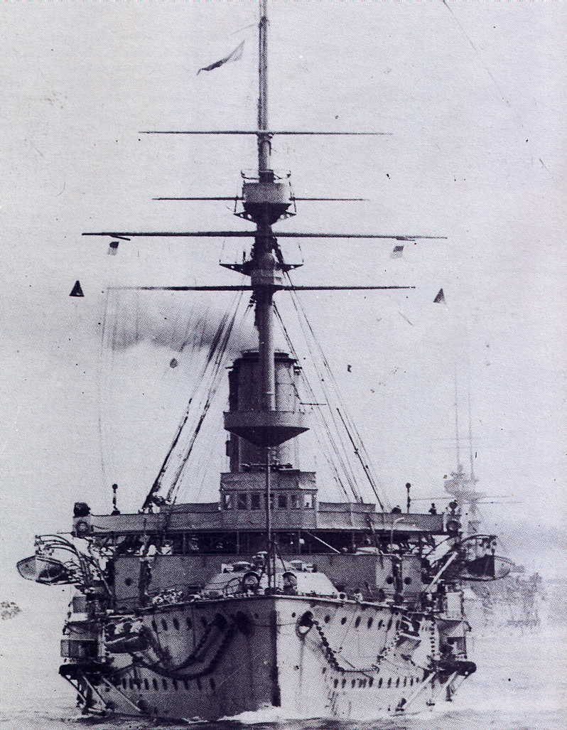 HMS Goliath (1898) in the summer of 1907